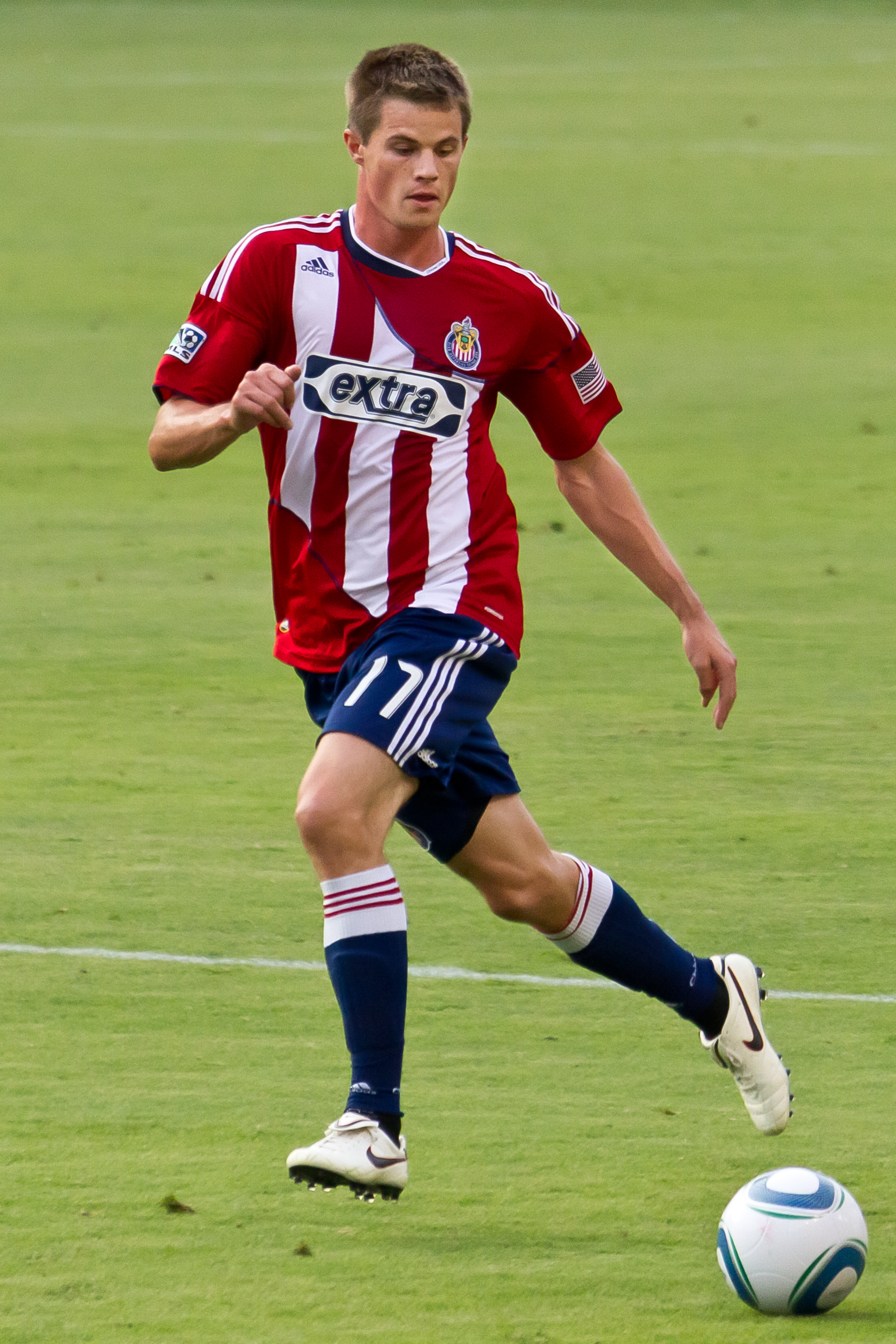 Justin Braun of Chivas USA receives a pass during a soccer game